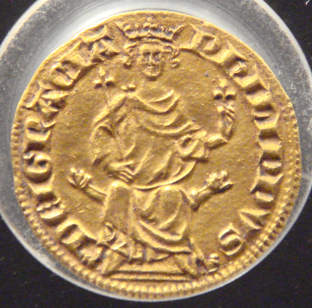 Petit_Royal_assis_de_Philippe_IV_August_1290_gold_3510mg. Photographed by me at La Monnaie de Paris.